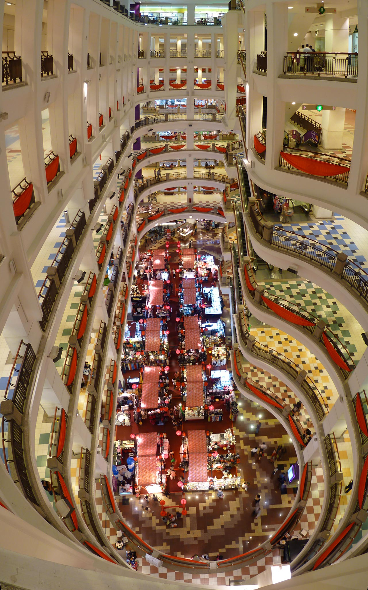 Main atrium of Berjaya Times Square shopping mall.